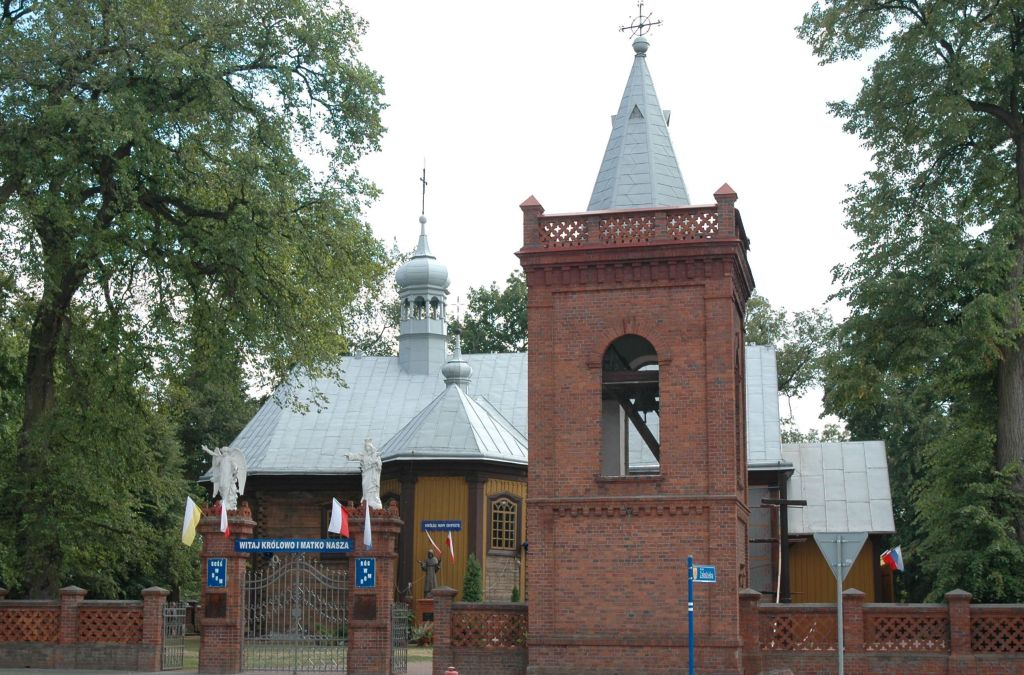 Firlej, Poland - wooden church.